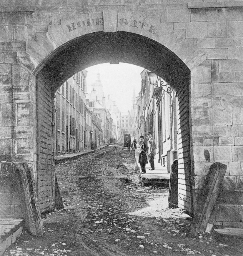 Hope gate, seen from outside, Quebec City, Quebec, Canada